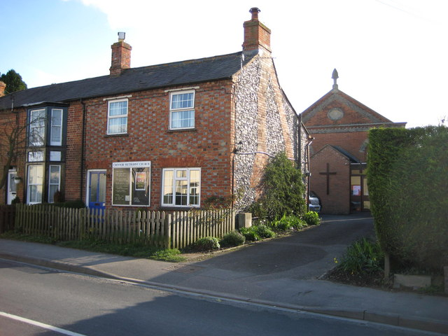 Chinnor Methodist Church The church was built in 1872. It is behind two brick and flint cottages on Station Road, of which the one on the right seems to belong to the Church.